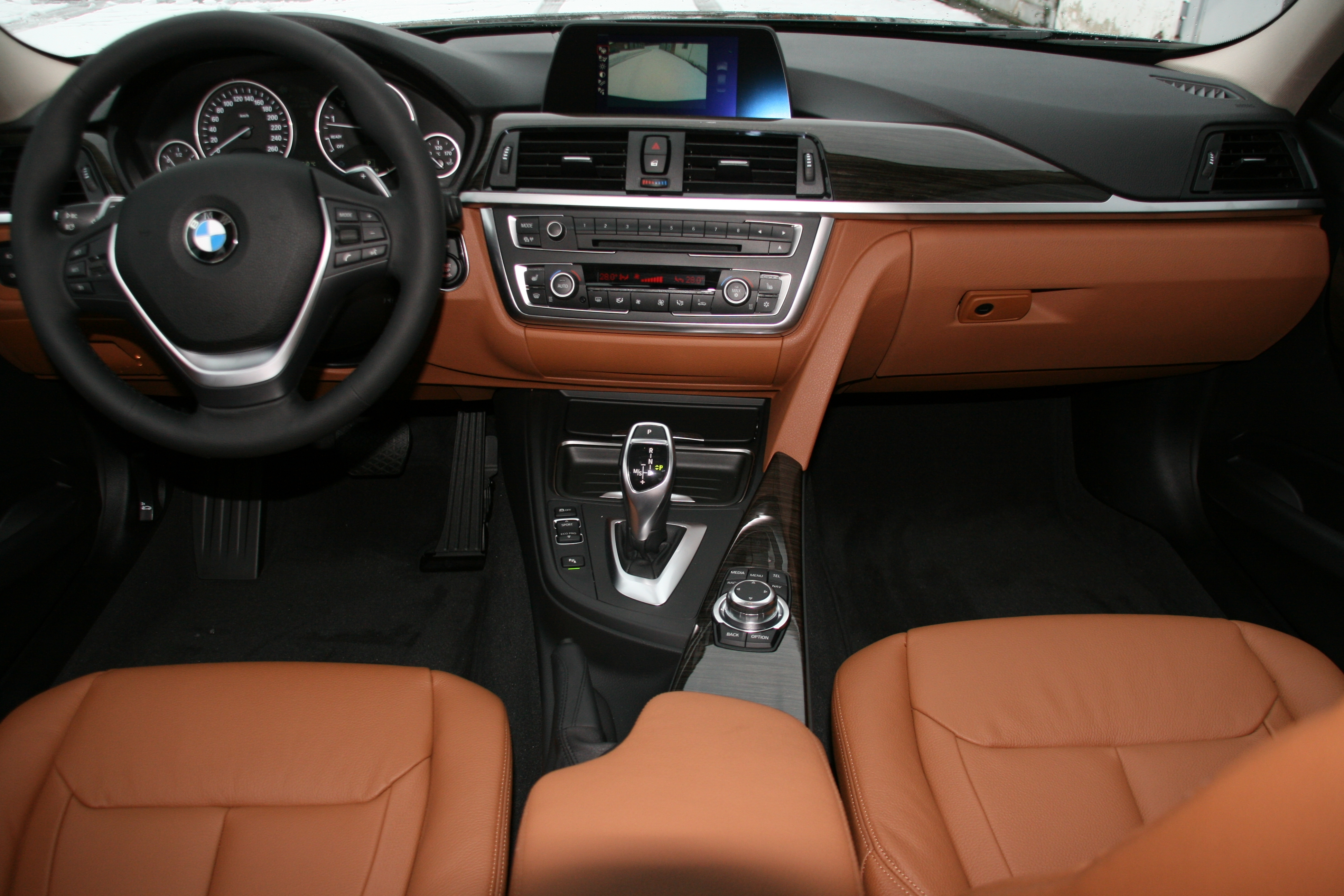 BMW 328i F30 2012 Cockpit